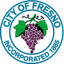 The official city seal of Fresno, California.